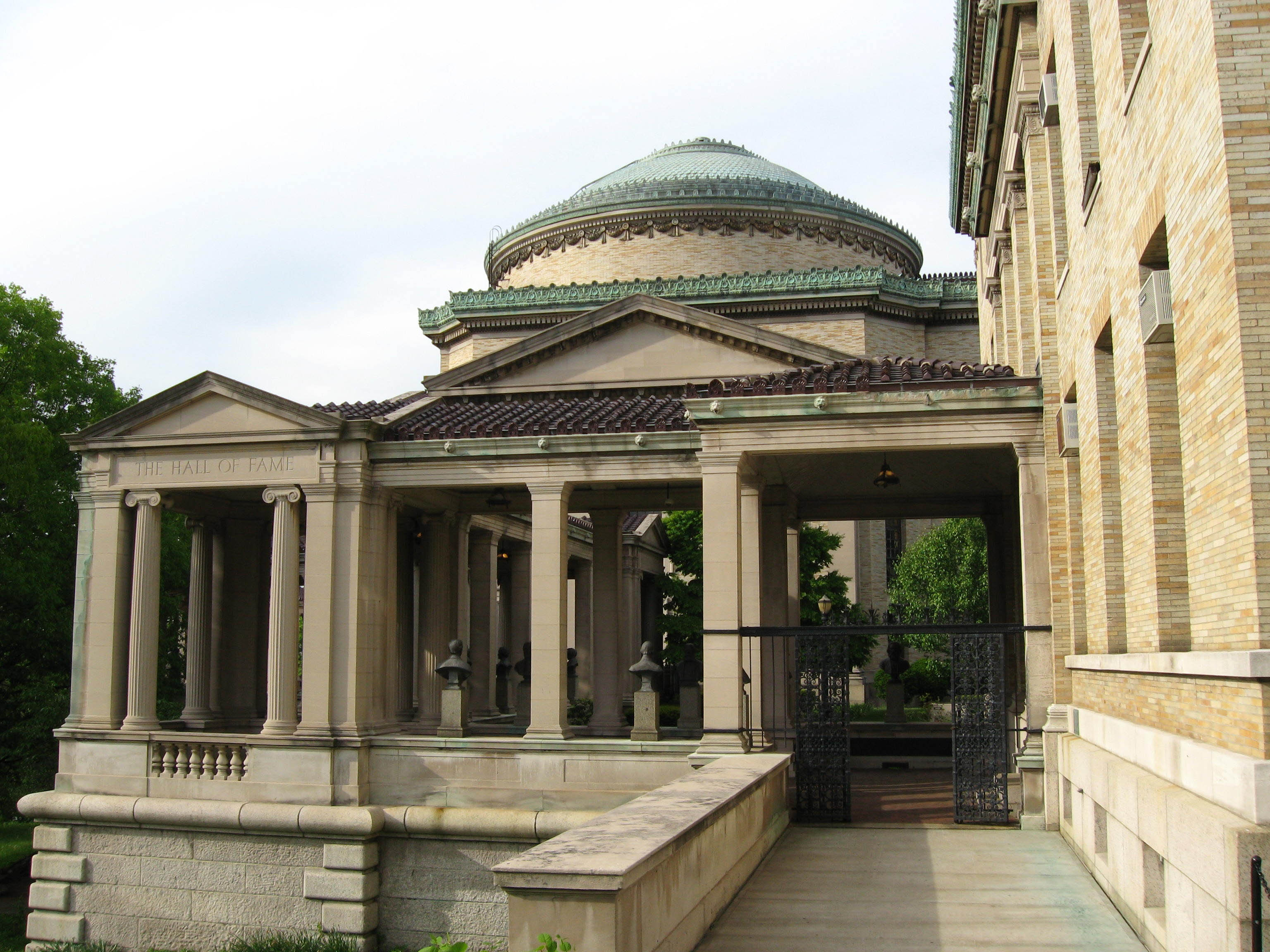 Looking north on a cloudy afternoon at south entrance of the Hall of Fame for Great Americans.